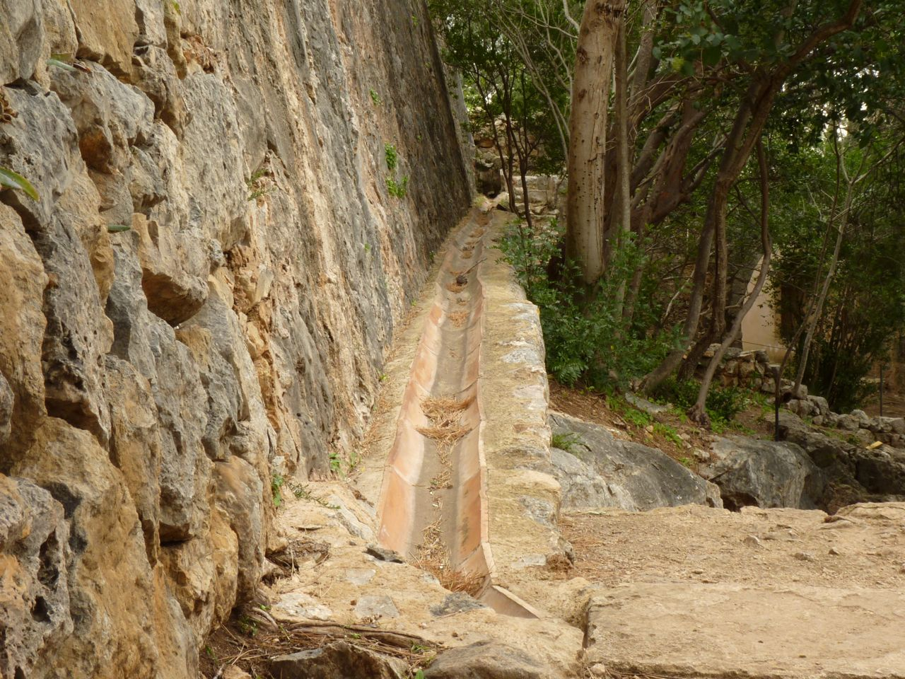 See title.